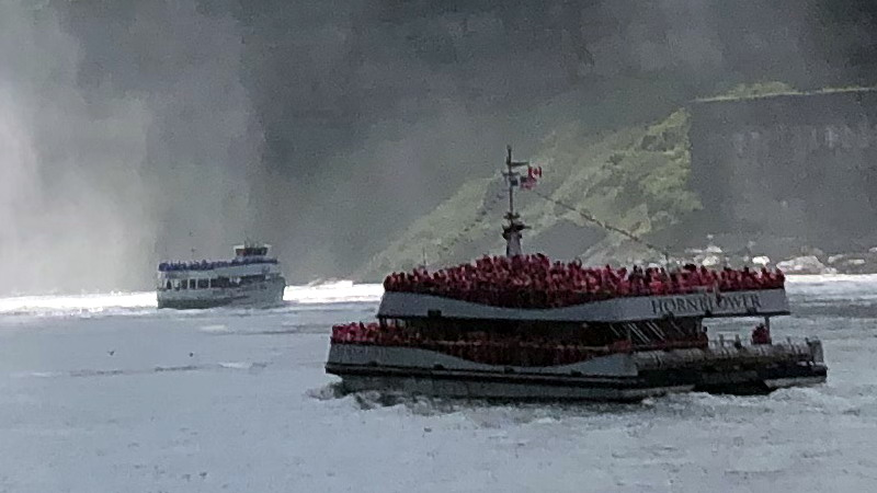 A Hornblower is meeting a Maid of the Mist, while the passengers of both boats are saying "Hi" to each other excitedly. The nearer is the Hornblower from Canadian side, with passengers wearing red raincoats; the further is the Maid of the Mist from American side, with passengers wearing blue raincoats.